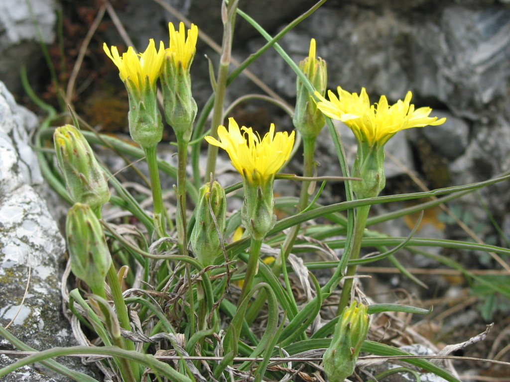 Scorzonera austriaca